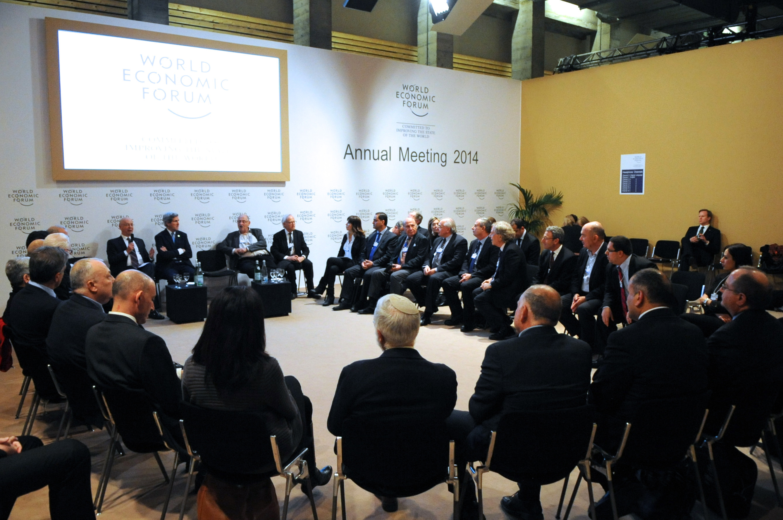 U.S. Secretary of State John Kerry sits down Founder Klaus Schaub before a discussion with the pro-Middle East peace group "Breaking the Impasse" on the sidelines of the World Economic Forum in Davos, Switzerland, on January 24, 2014. [State Department photo/ Public Domain]